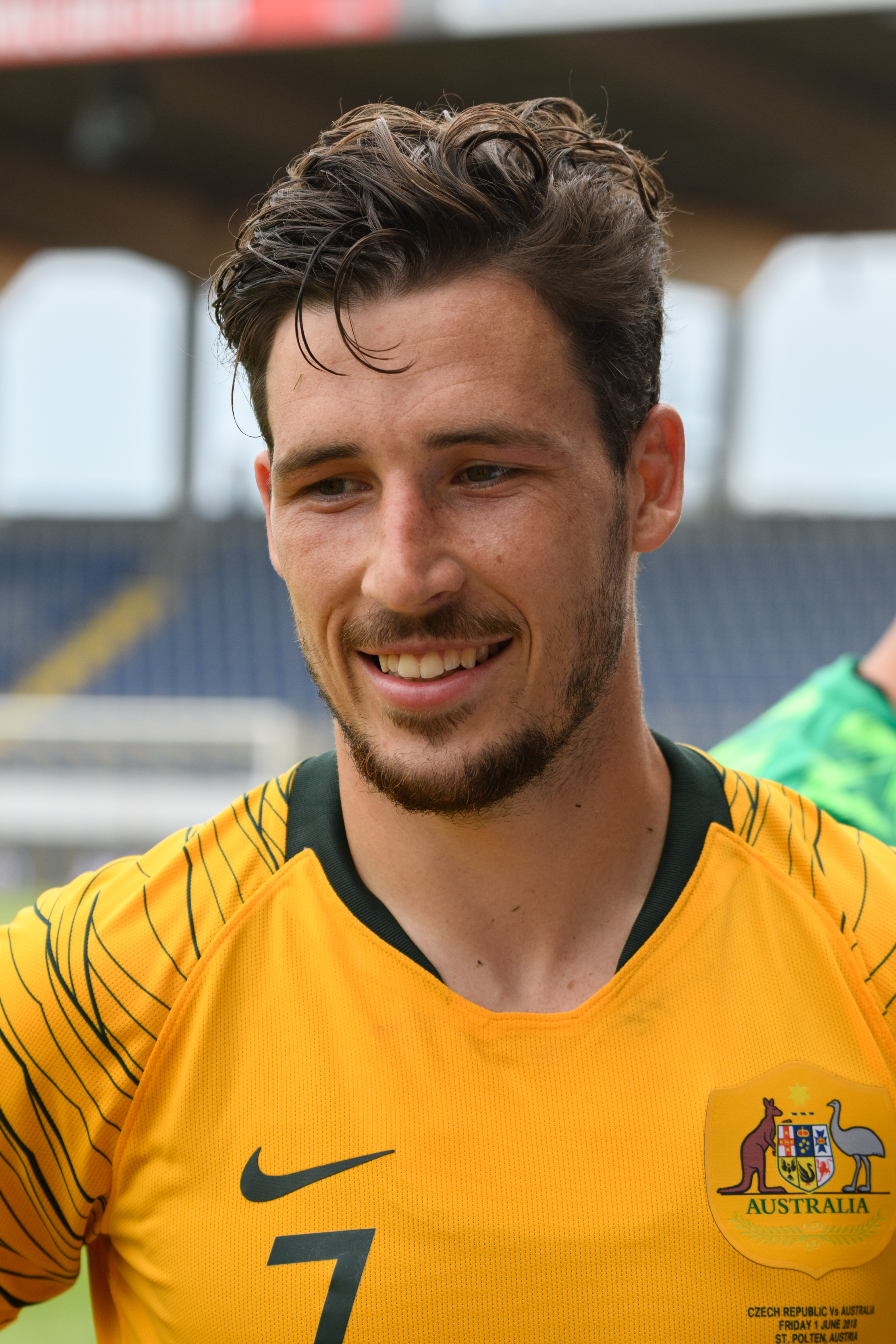 FIFA Friendly Match Czech Republic vs.Australia 2018/03/27. Picture shows Mathew Leckie (AUS).